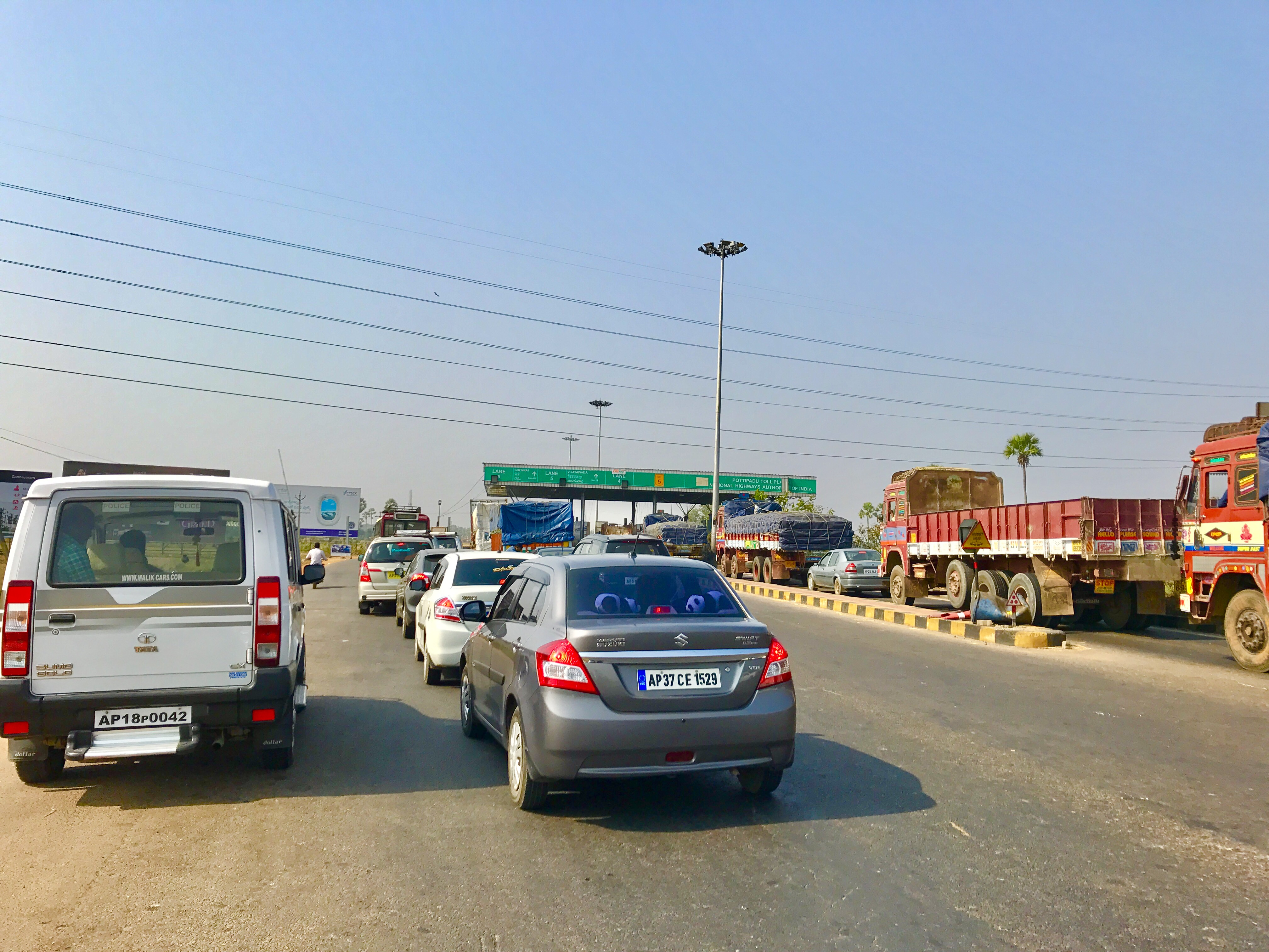 Telaprolu tollplaza on AH-45, National Highway 16 (Former NH 5)